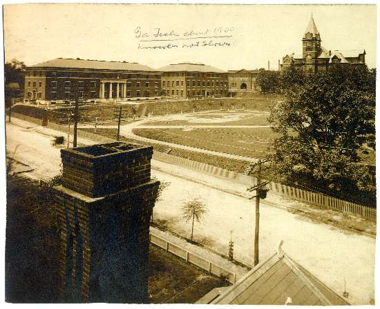 Georgia School of Technology Campus View